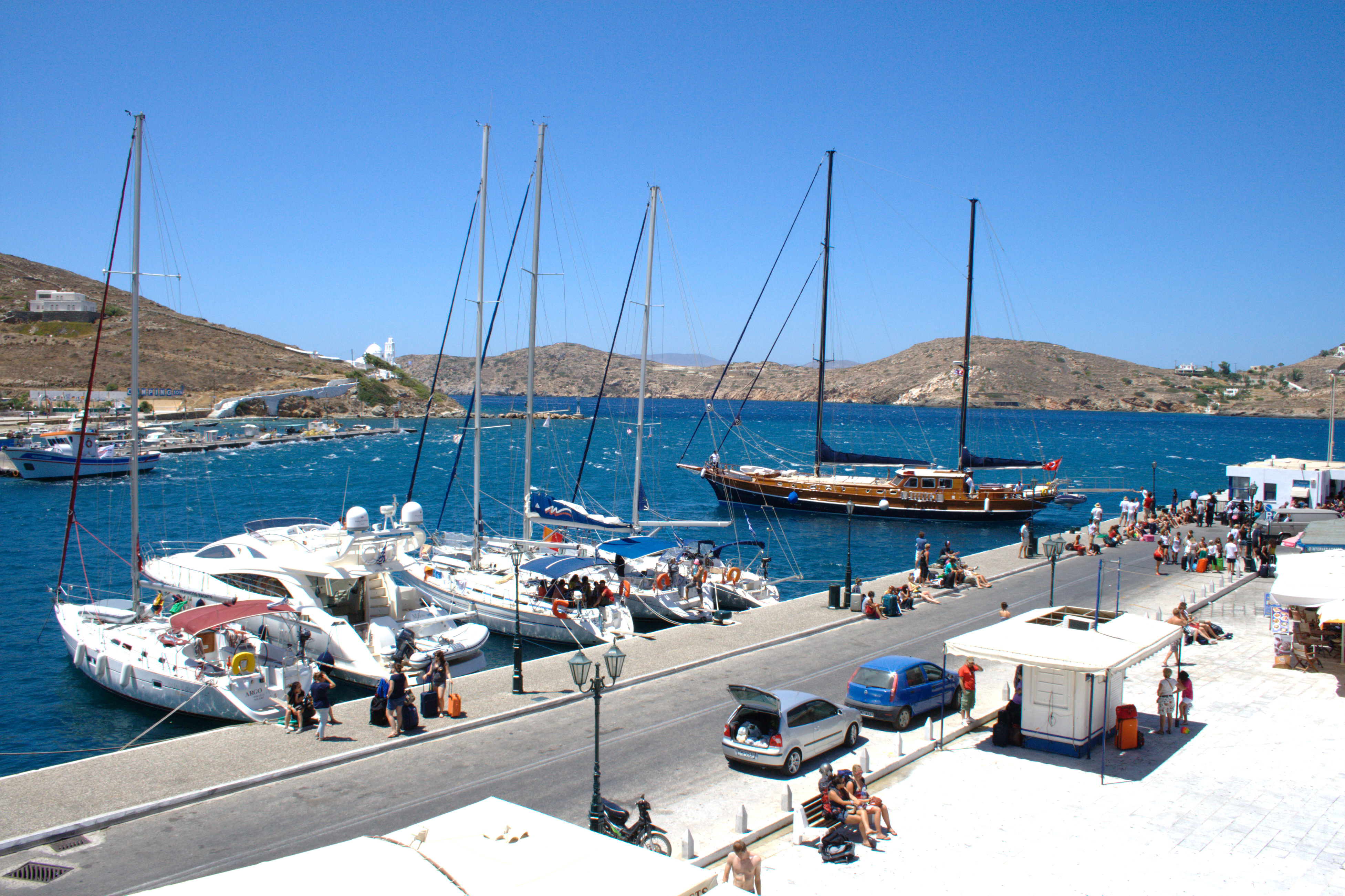 Ios, Greece.